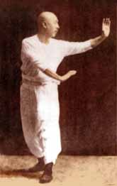 Xingyi/Baguazhang master Chang Chan Kuei (1859–1940)